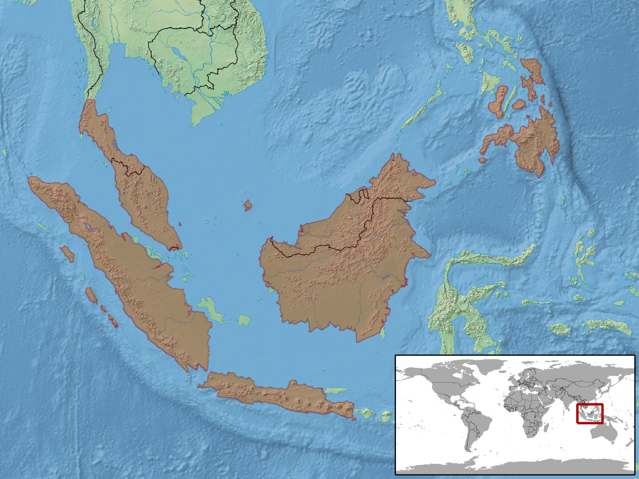 geographic distribution of Calamaria lumbricoidea (Native: Brunei Darussalam; Indonesia (Jawa, Kalimantan, Sumatera); Malaysia (Peninsular Malaysia, Sabah, Sarawak); Philippines; Singapore; Thailand)